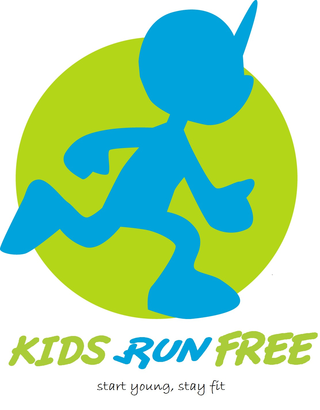 Charity logo